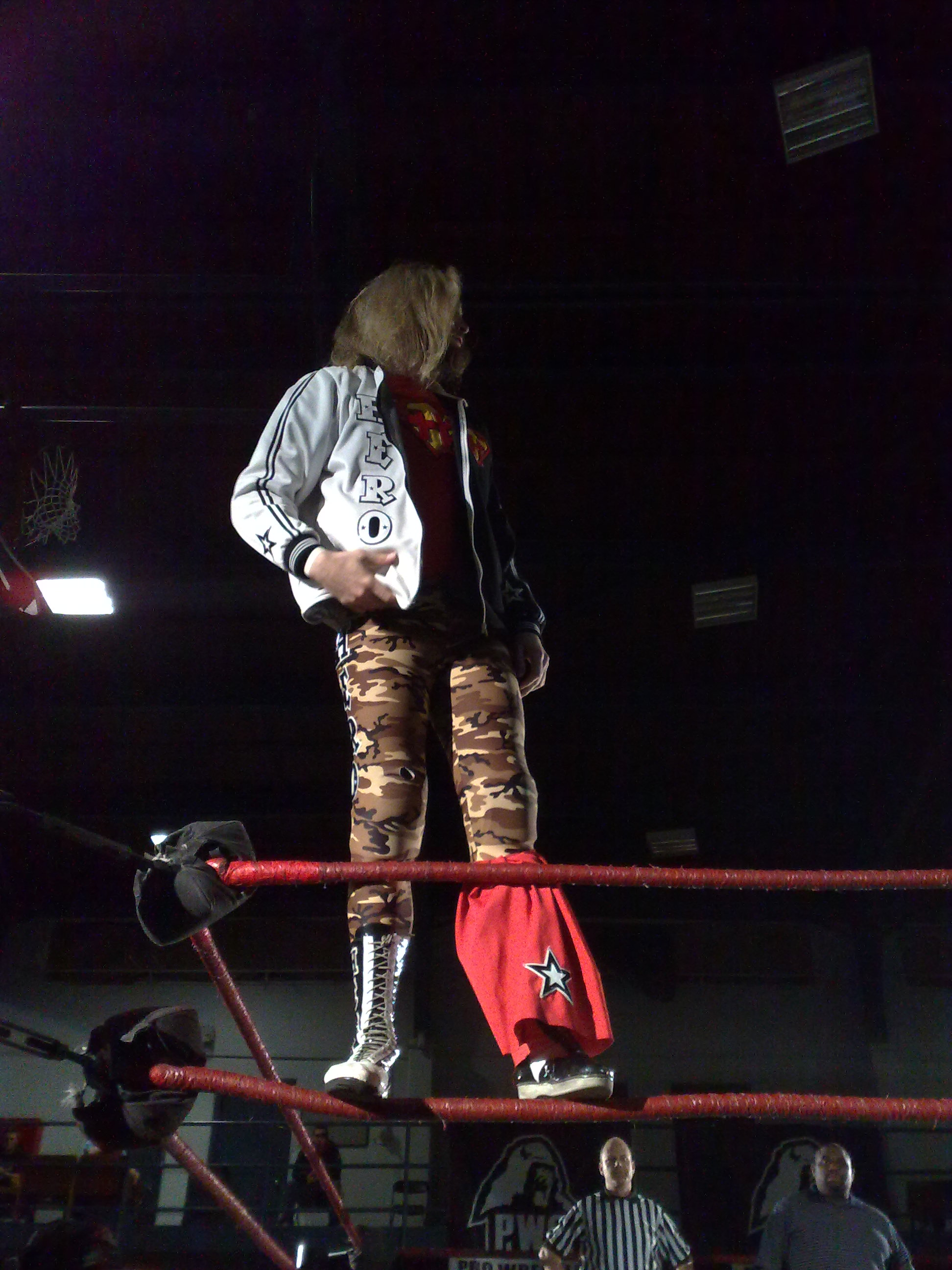 Professional wrestler Chris Hero posing on the turnbuckles prior to a match at Pro Wrestling Guerrilla's Battle of Los Angeles 2008 Night 2 show on November 2, 2008.